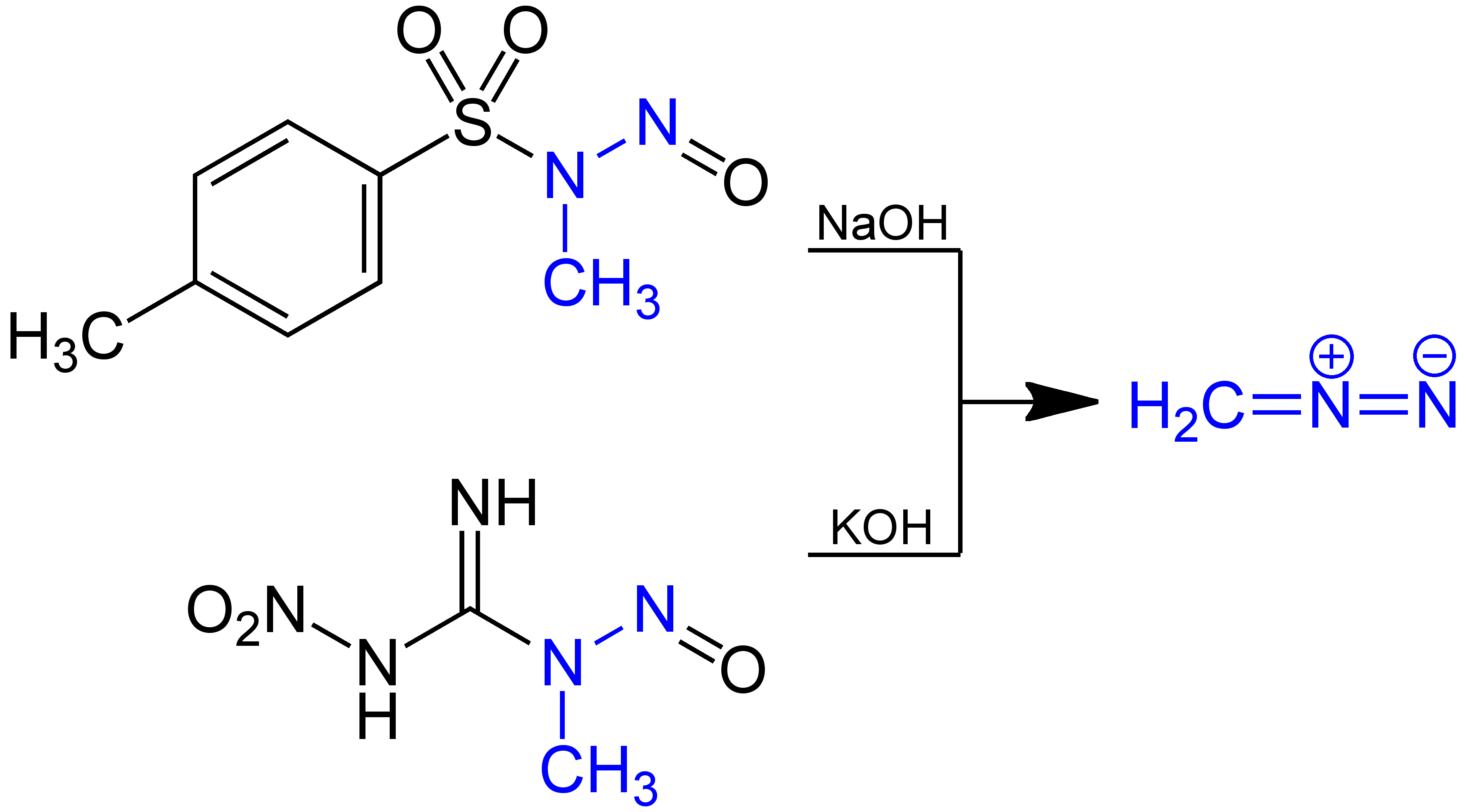 Diazomethane_Synthesis